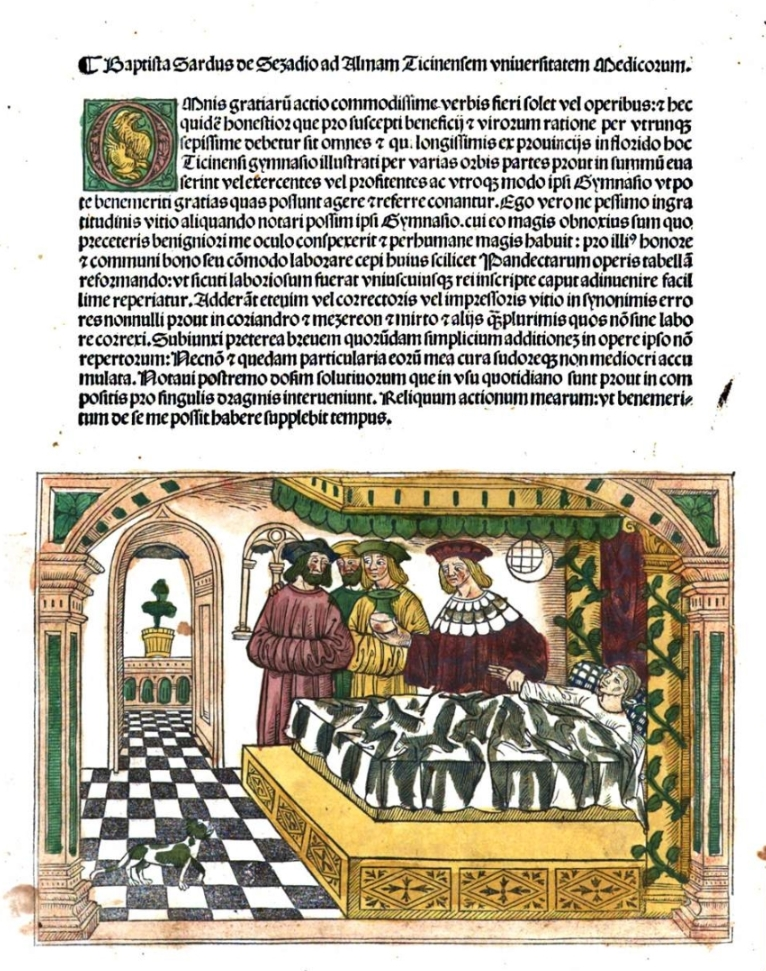 Matthaeus Silvaticus, Liber pandectarum medicinae (Turin, 1526) prefatory letter